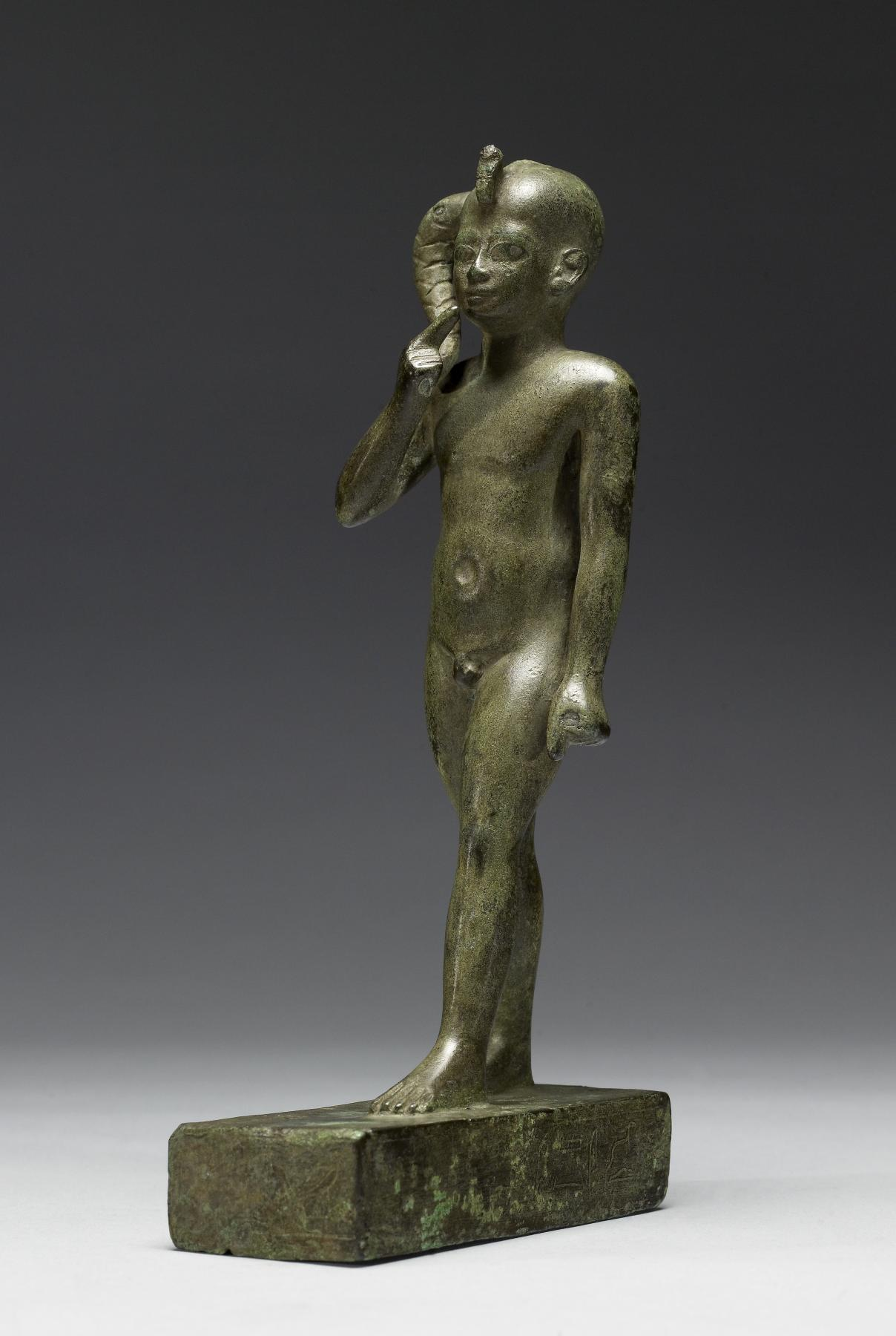 Harpocrates or "Horus the Child" was the son of Isis and Osiris. He represents legal kingship as mythical successor of his father Osiris, who, in death, became Lord of the Netherworld. He was especially popular in the Late and Greco-Roman periods. Representations such as this show him as a nude boy with his finger to his mouth, and a sidelock of hair, the symbols of childhood. Here he also has a uraeus (a cobra serpent) above his forehead, symbolizing his entitlement to kingship.